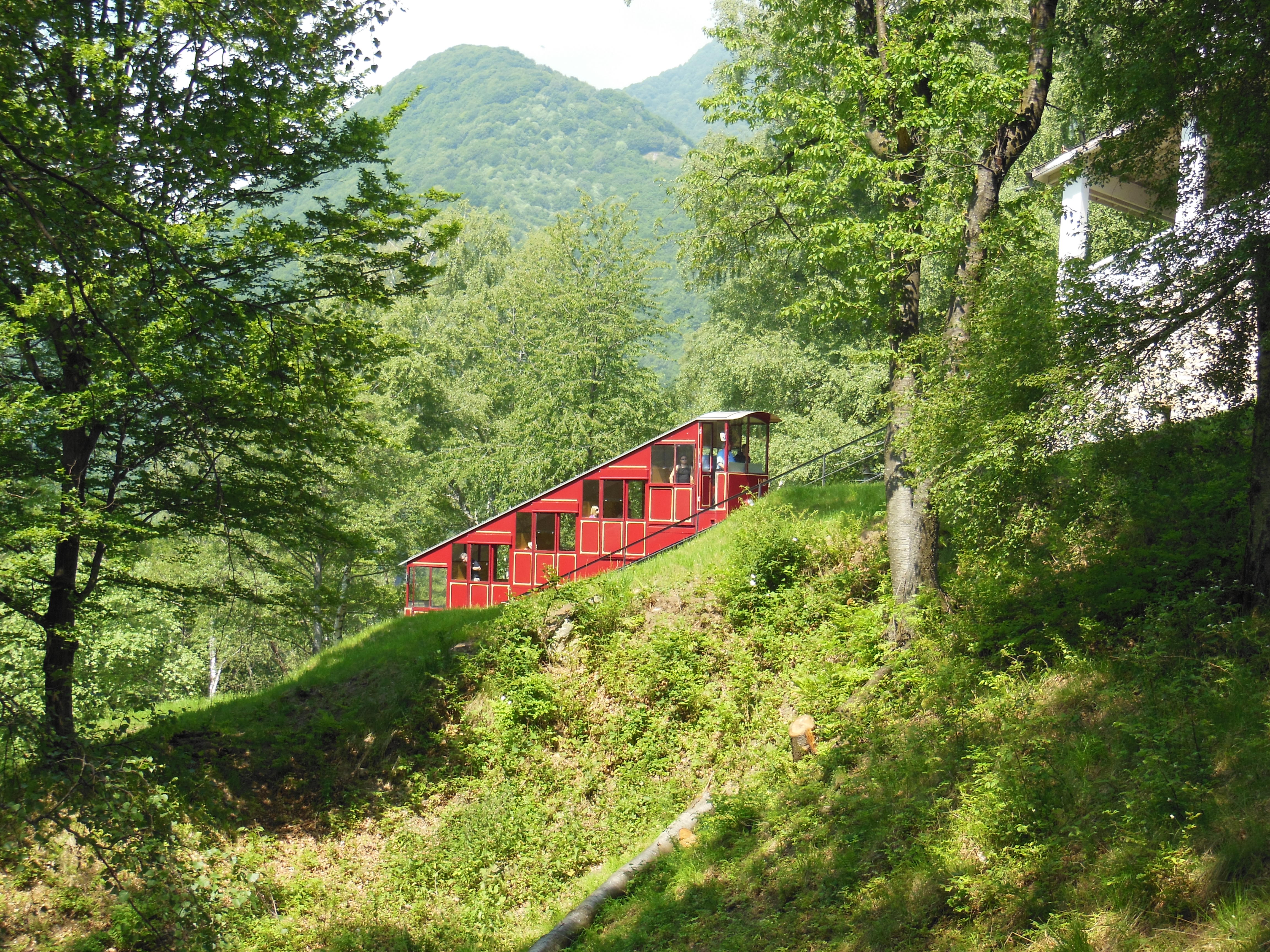 Upper section of the Monte Brè funicular, with funicular car approaching the upper station. For more information, see Wikipedia article Monte Brè funicular.